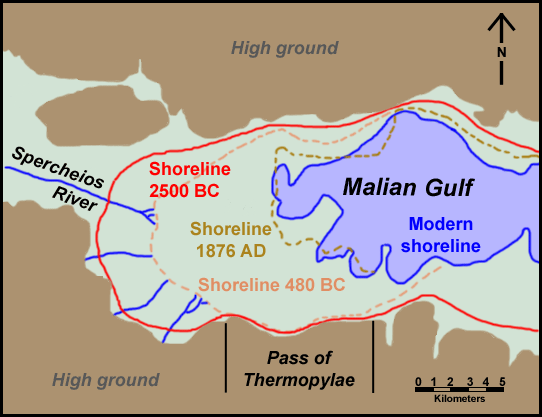 Map of Thermopylae area with modern shoreline and reconstructed shorelines of 1872 AD, 480 BC and 2500 BC. Loosely based on figure 3.19 in Geoarchaeology: The Earth-science Approach to Archaeological Interpretation, p. 96. George Robert Rapp, Christopher L. Hill. Yale University Press, 2006. ISBN 0300109660